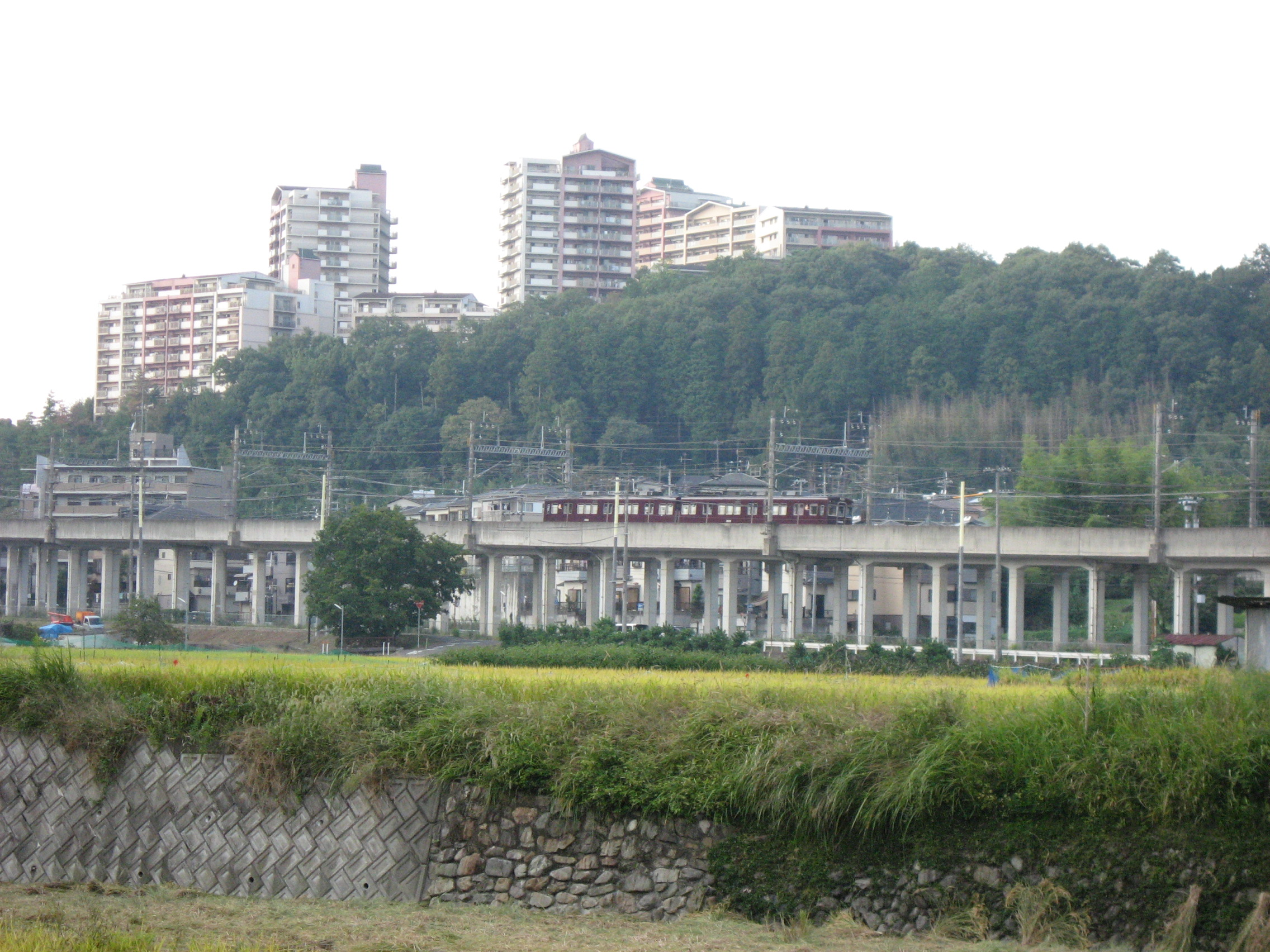 Nose Electric Railway Niisei Line.